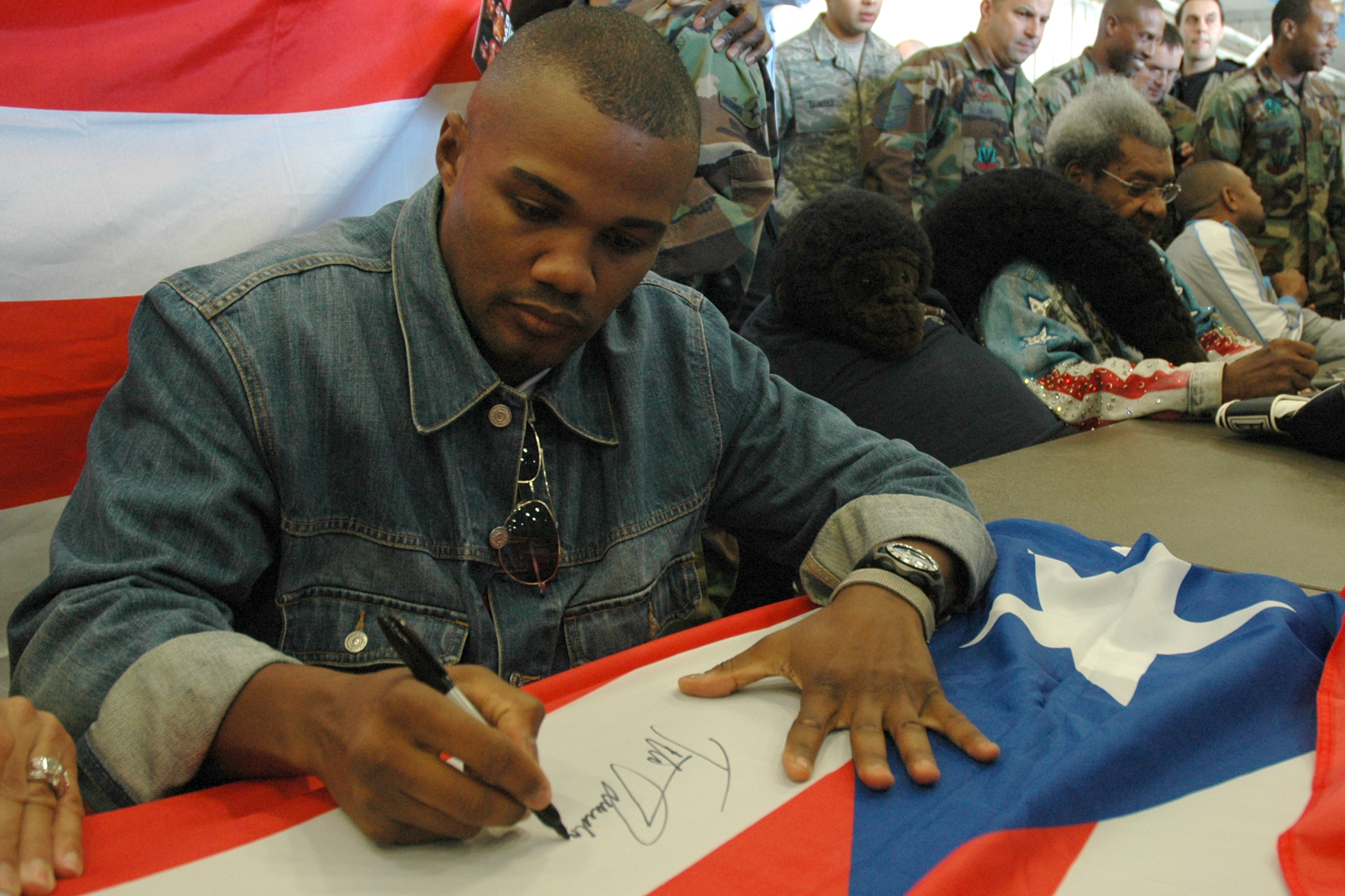 EGLIN AIR FORCE BASE, Fla. -- Felix "Tito" Trinidad signs an autograph on a Puerto Rican flag Dec. 4. Don King, Roy Jones Jr. and Trinidad made a visit to Eglin Airmen to sign autographs. Jones and Trinidad, with a combined 13 world titles, will meet in a much anticipated fight Jan. 19 at Madison Square Garden in New York City.